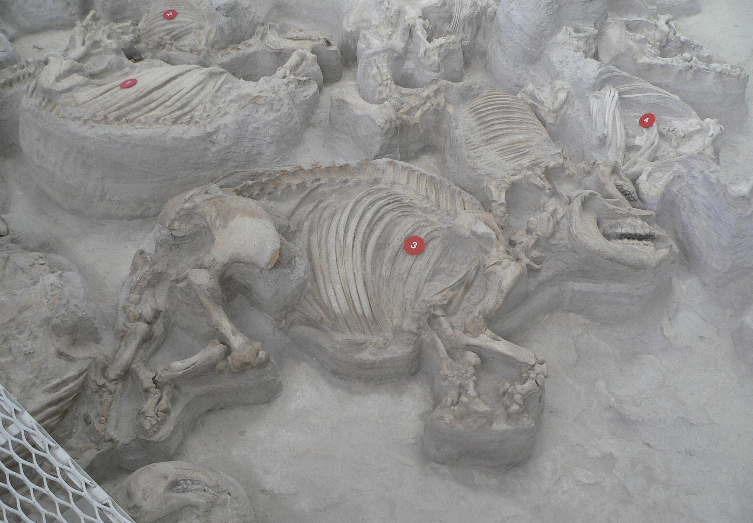 Ashfall Fossil Beds in Antelope County, Nebraska. According to a nearby sign, the "3" marker is on the skeleton of an adult female Teleoceras major, nicknamed "Sandy"; just above, with its skull adjacent to hers, is a baby Teleoceras calf, dubbed "Justin". According to the sign, the close positioning may suggest that "Justin" was "Sandy's" calf.